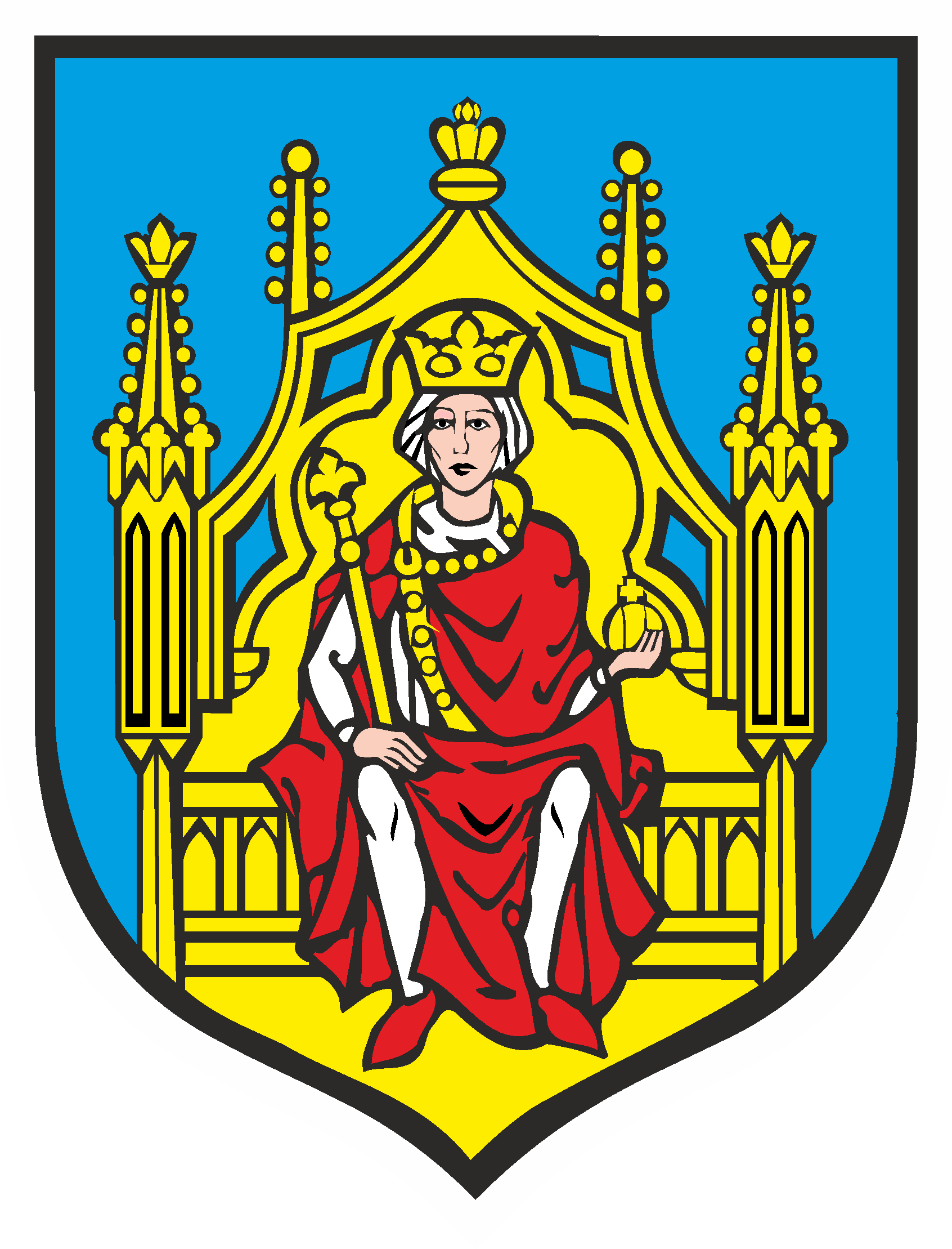 coat of arms of the city Grodzisk Wielkopolski